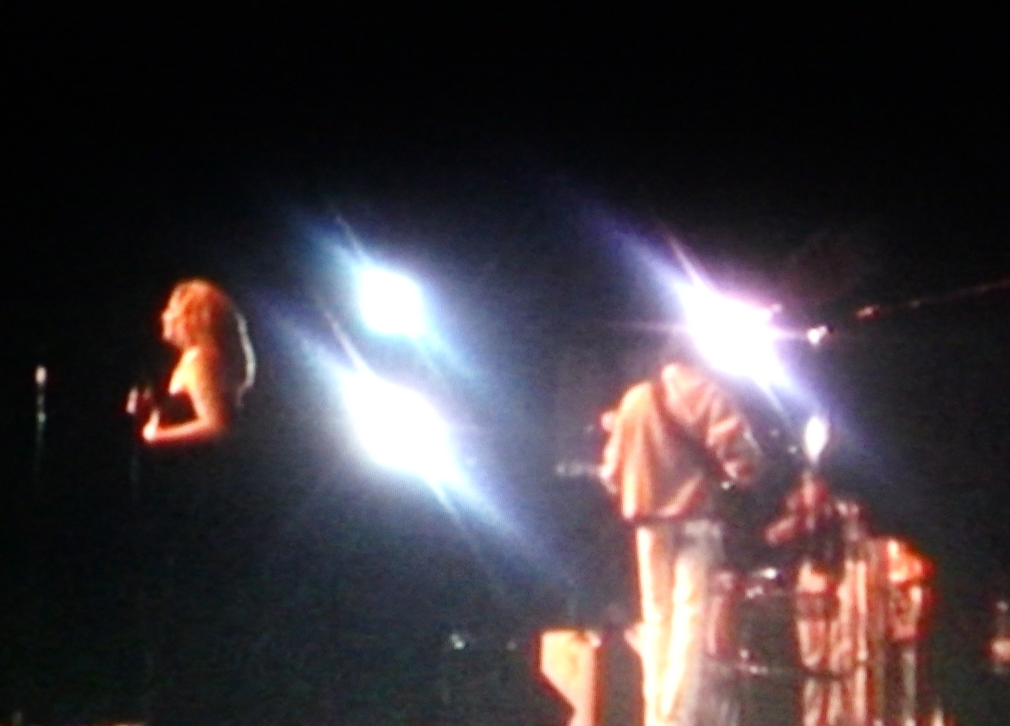 Mina & Pino Presti orchestra, July 1, 1978